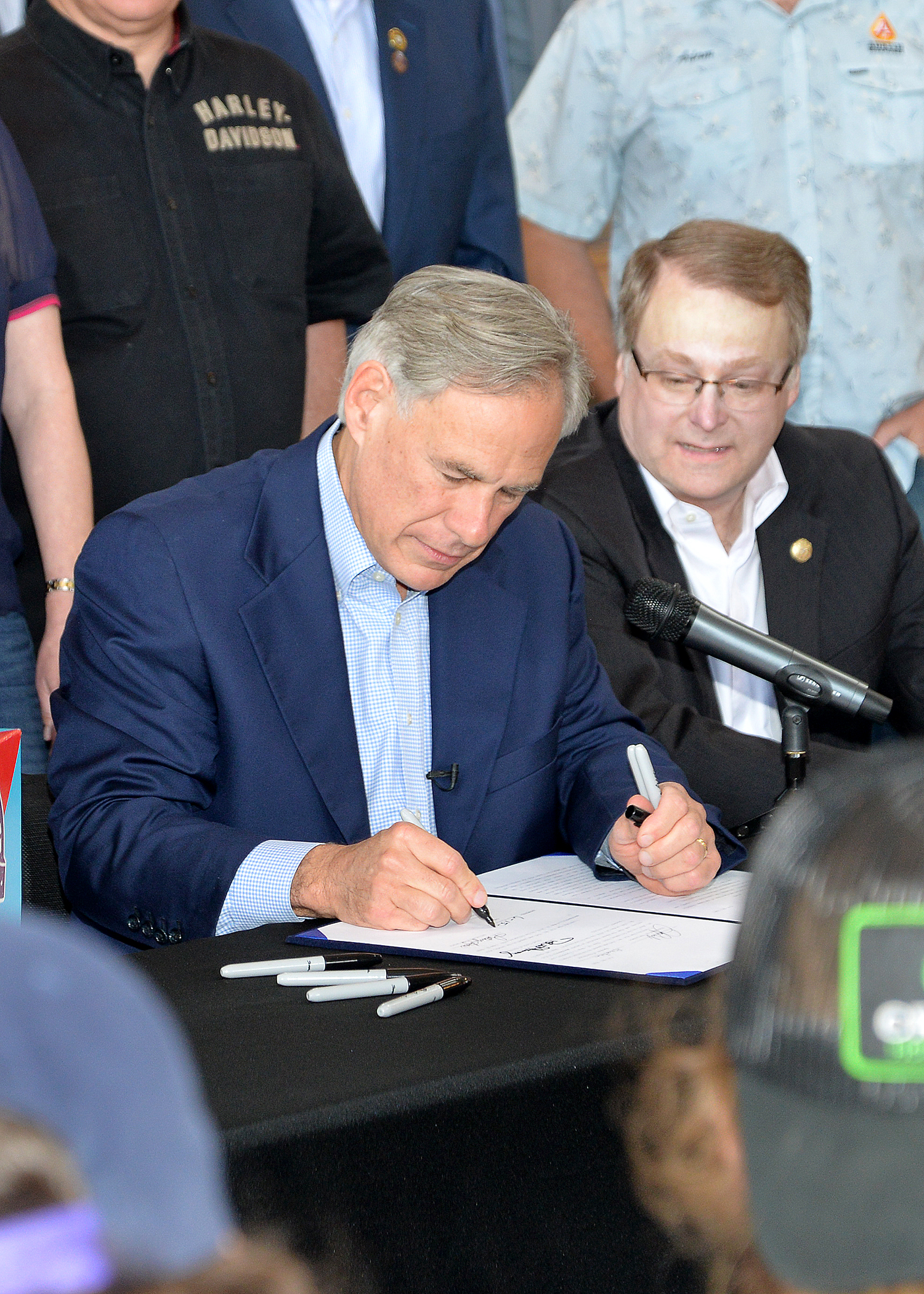 Texas Governor Greg Abbott signs a bill continuing the Texas Alcoholic Beverage Commission for 12 years while state Senator Brian Birdwell looks on. The signing took place during a ceremony on June 15, 2019 at an Austin-area brewery.